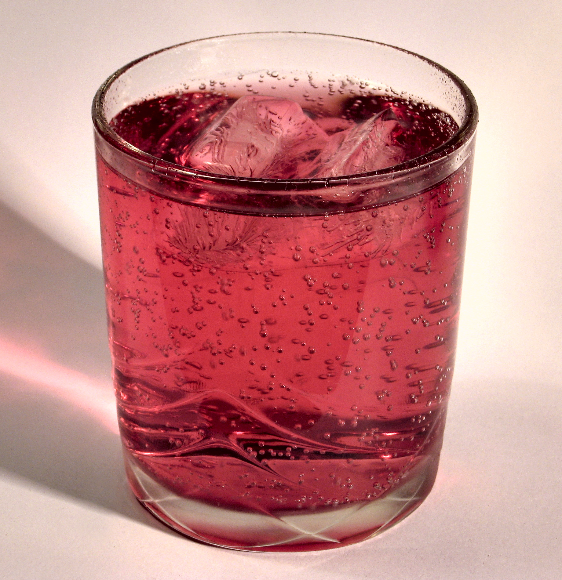 A glass of Raspberryade (as it was named and marketed by manufacturers Barr in the UK; similar soft drinks are also known as raspberry soda in other parts of the world).